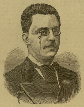 Filipe de Sousa e Holstein, Marquis of Monfalim (1841-1884).